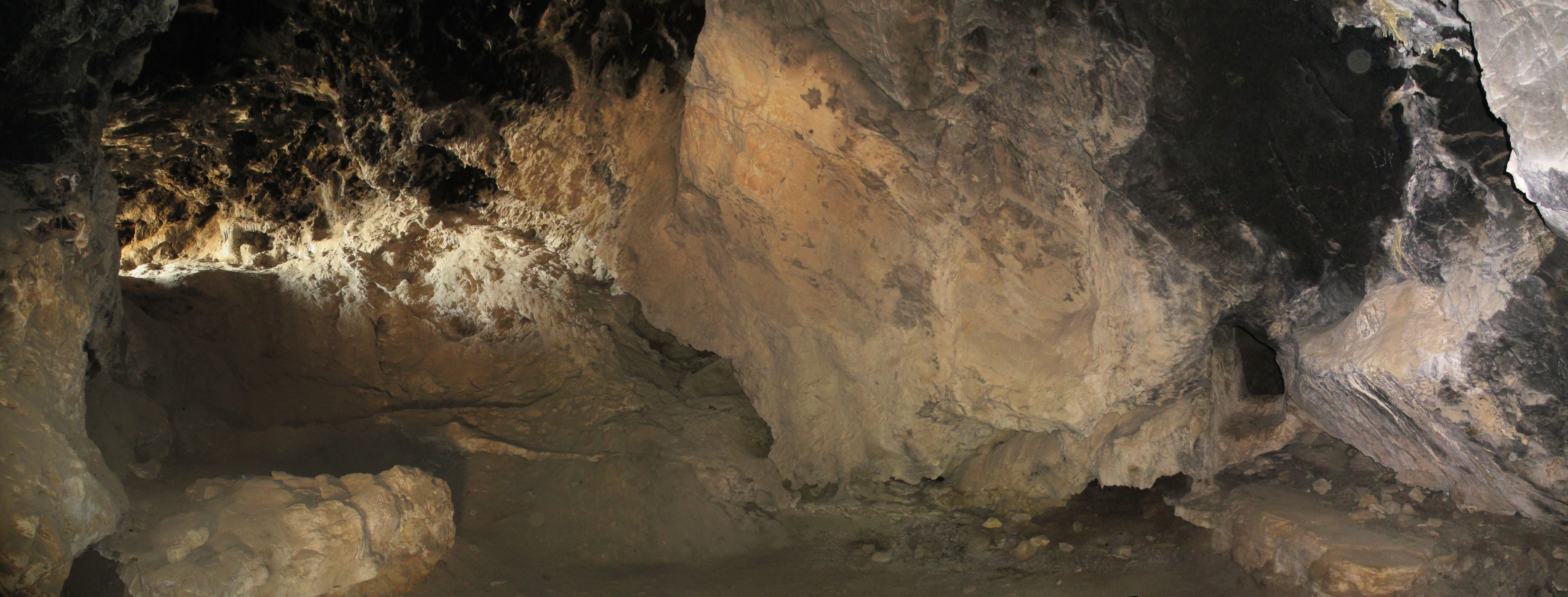 Pythagoras Cave, Mount Kerkis, Samos, Greece. Inside the cave, panorama view.